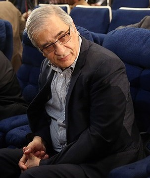 Tahmasb Mazaheri, former Finance Minister and Governor of Iran's Central Bank at Etellat Institute's Diplomacy Irani Forum